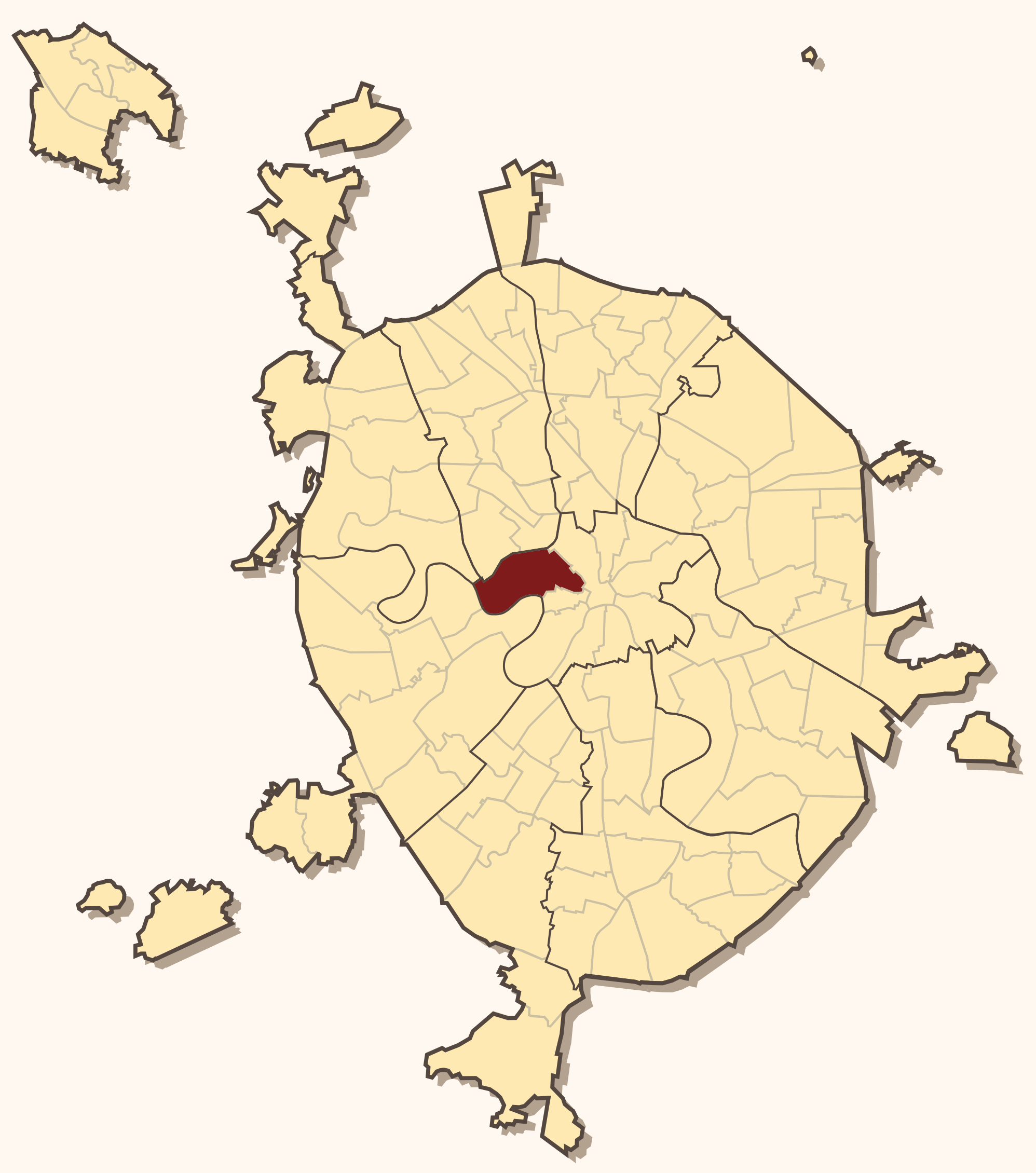 Moscow districts map